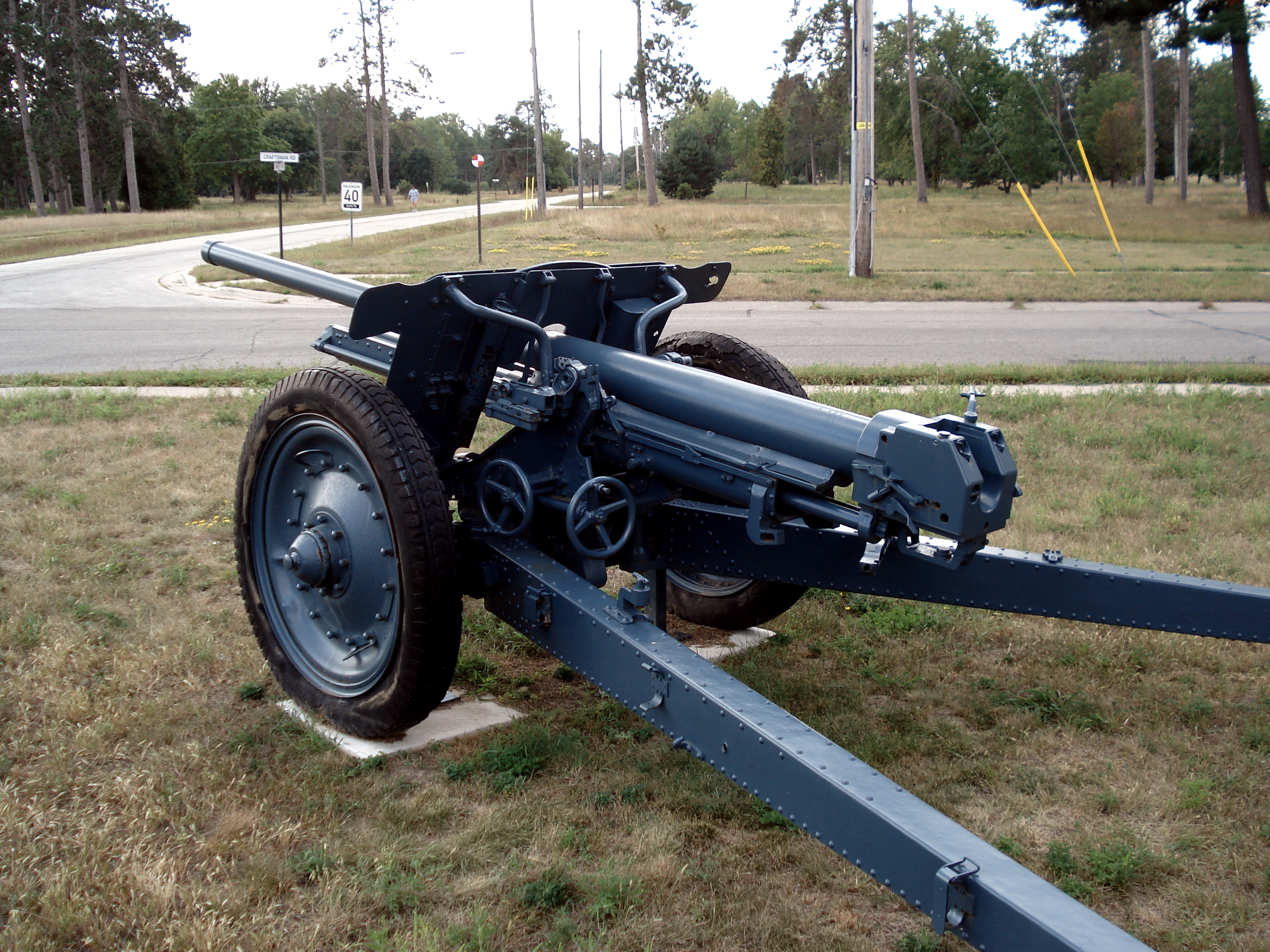 German Pak 36(r) 76,2 mm anti-tank gun, obtained from converting captured Soviet F-22 76 mm guns. This example is displayed on the grounds of CFB Borden (Base Borden Military Museum). Photo taken on August 18, 2006. Source: Photo by me, User:Balcer.